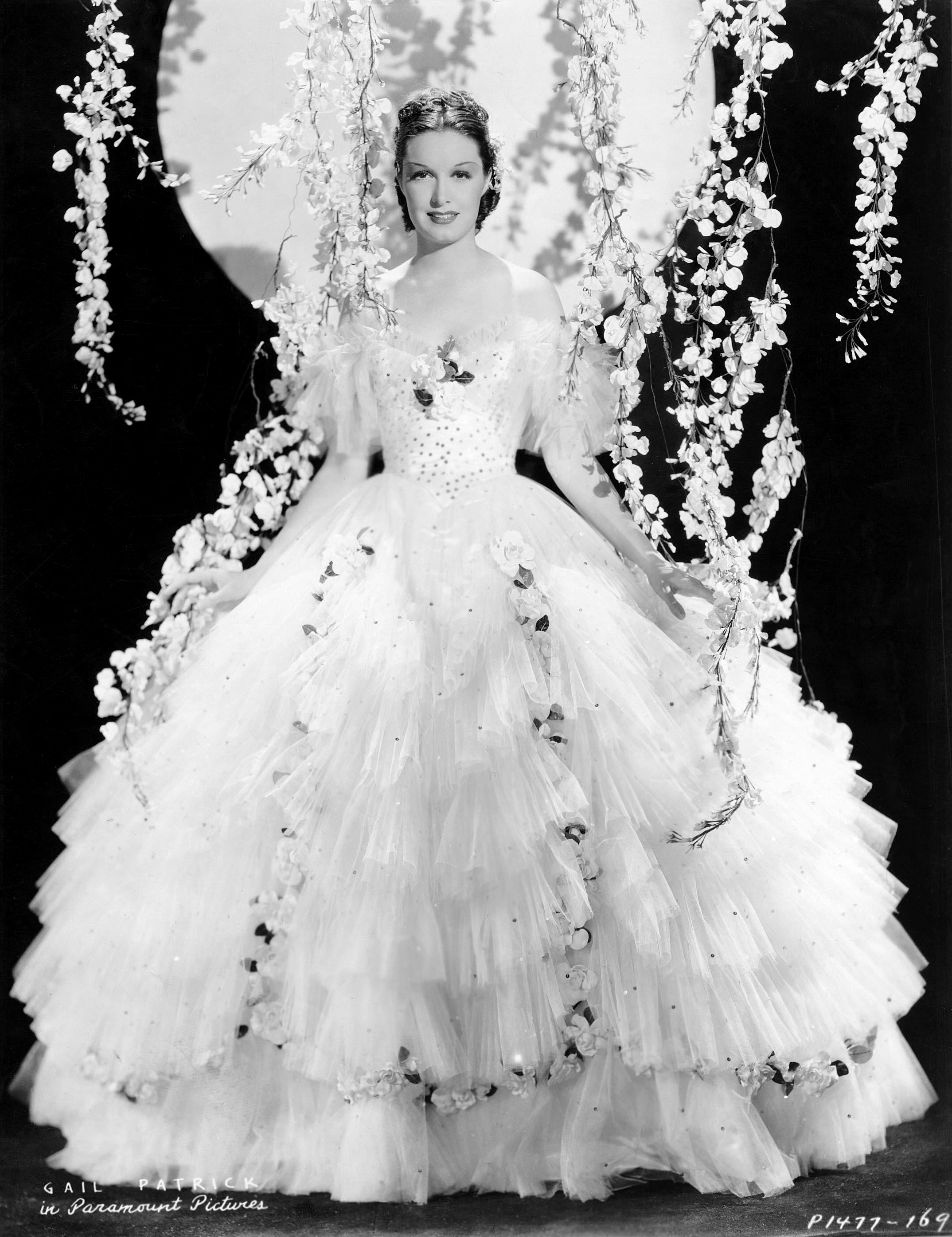 Promotional photograph of Gail Patrick in the film Mississippi